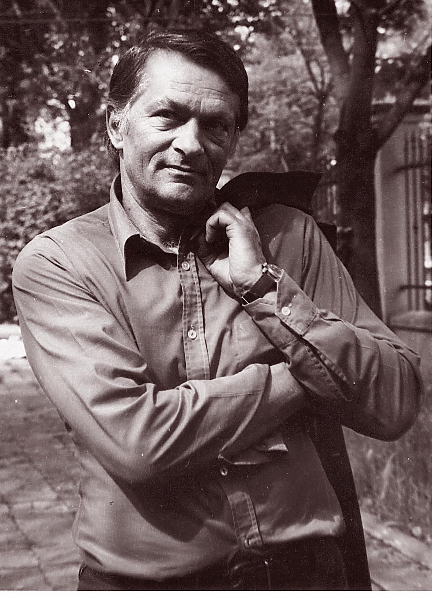 Jerzy Boron (1924-1986), polish sculptor